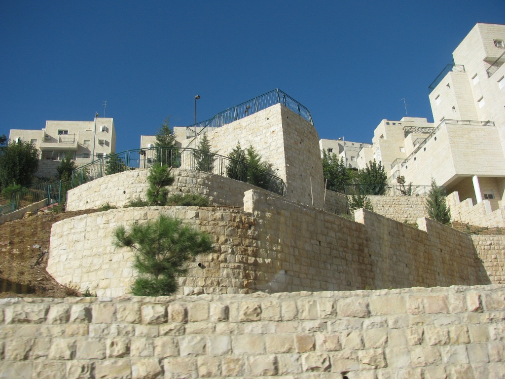 Building dense, but interesting planned Har Homa, Jerusalem